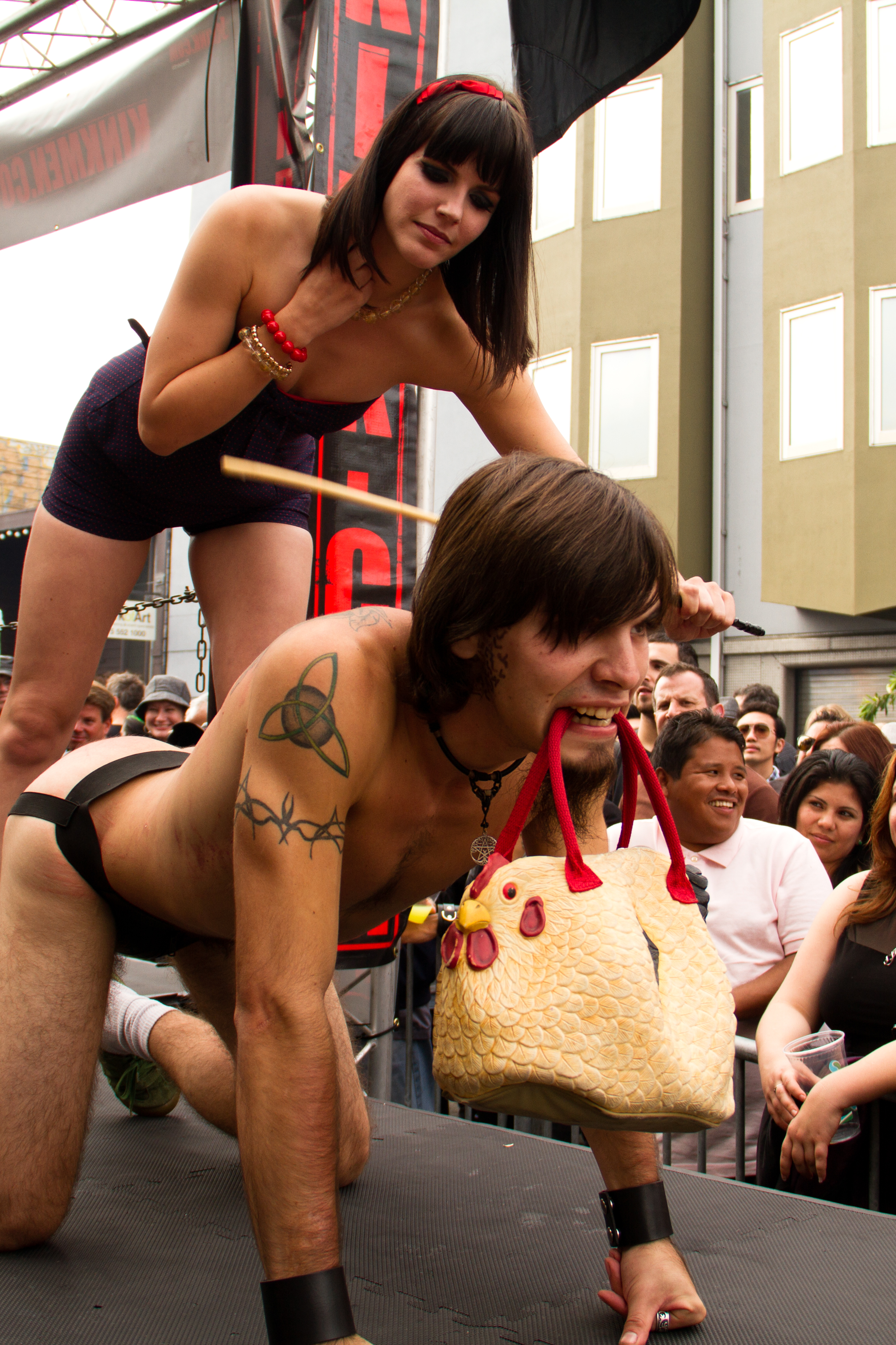 A submissive man being humiliated in public (caning).